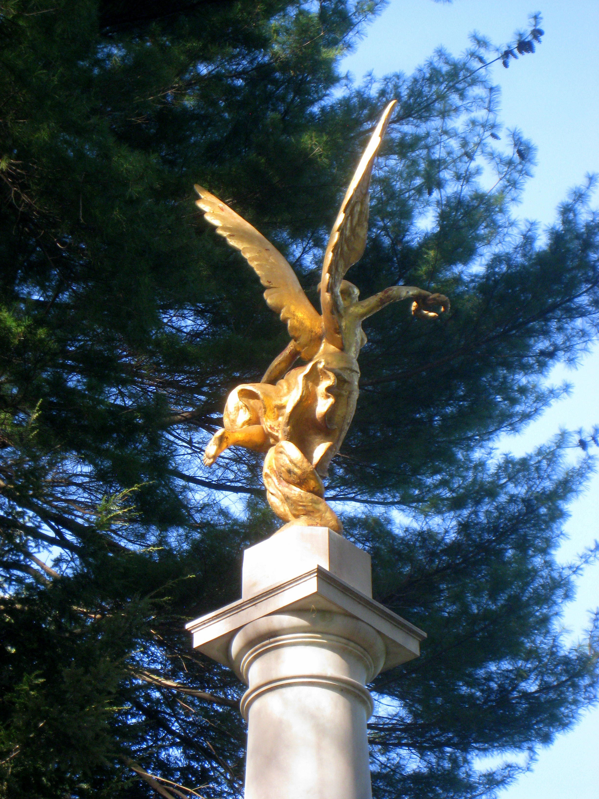 Stanley Park of Westfield - Westfield, Massachusetts, USA.